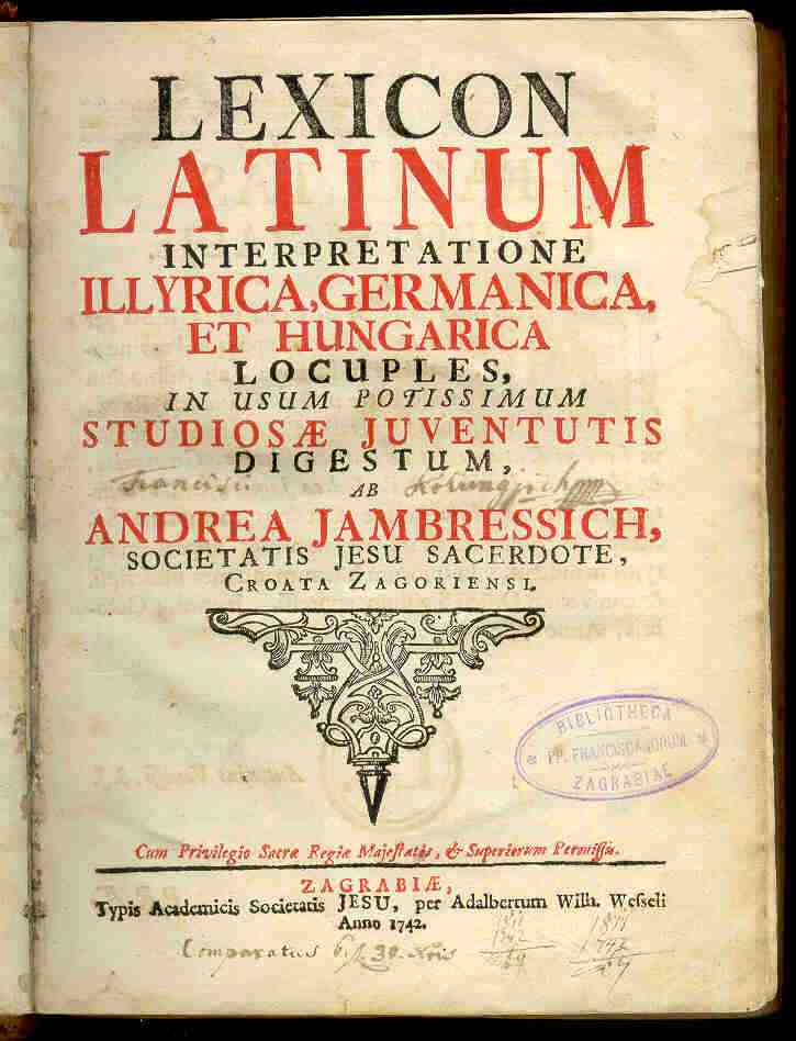 Andrija Jambrešić–Franjo Sušnik: Lexicon Latinum. Latin-Kajkavian-German-Hungarian dictionary from 1742